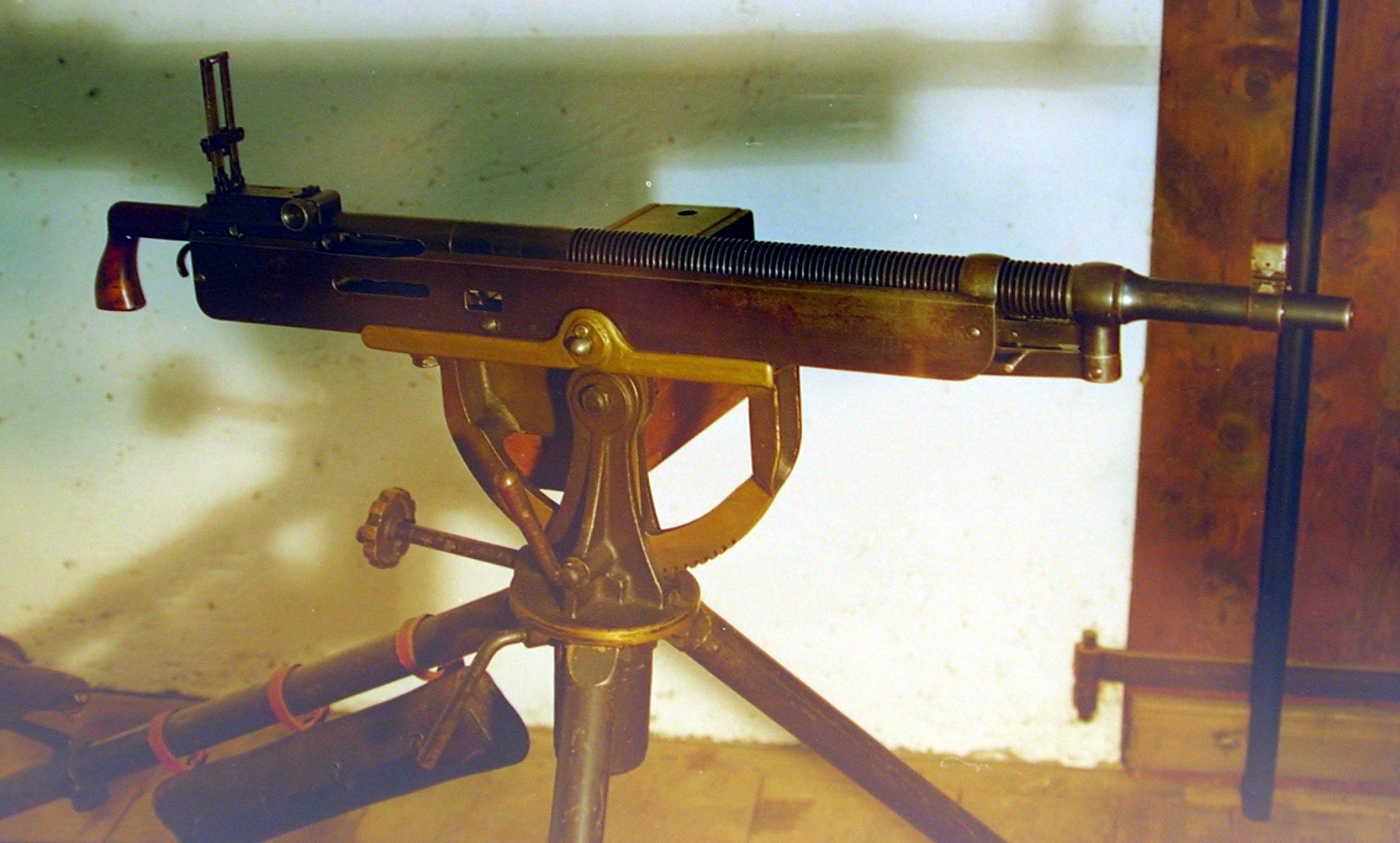 Colt Browning Mod 1895 / M1914 Machine Gun "Potato Digger" cal 7 mm Mauser